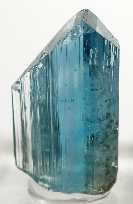 Euclase Locality: Gachalá, Guavió-Guatéque Mining District, Boyacá Department, Colombia (Locality at ) Size: thumbnail, 2.1 x 1.3 x 0.7 cm Euclase An absolutely flawless, perfect, gem euclase crystal of high quality. It has glassy lustre and is more intensely transparent and bright, in person. This mine sets the standard for euclase and the recent finds here (from about 2004 til recently) have provided many more specimens than in the past it is true - but few of this calibre. This crystal is perfect, and complete, front back and sides. The minor associated specks are pyrite. ex. Marc Weill Collection, from a find in 2005